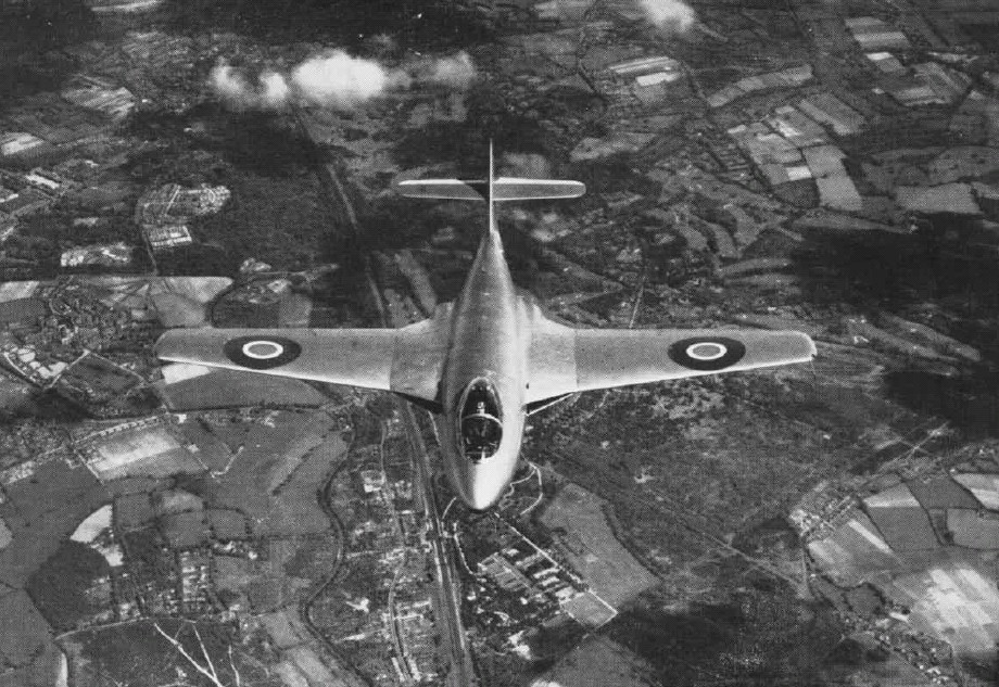 The prototype of the Hawker P.1040 (serial number VP401) in flight in 1947/48. It made its first flight on 2 September 1947 and was the prototype of the highly sucessful Hawker Sea Hawk.